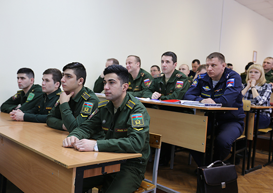 Foreign cadeta at the Military University of Ministry of Defense of Russia